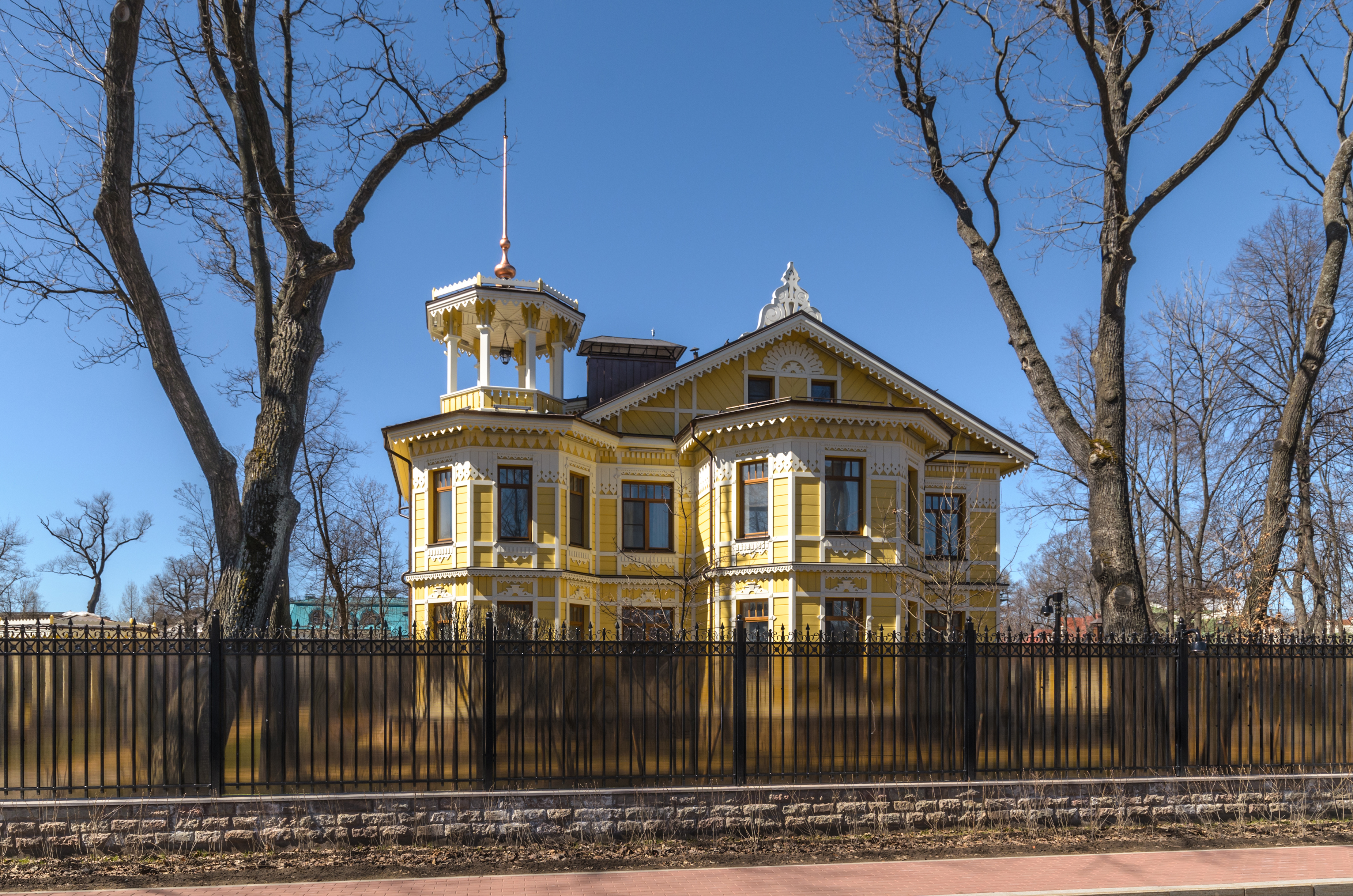 House on Kamenny Island in Saint Petersburg